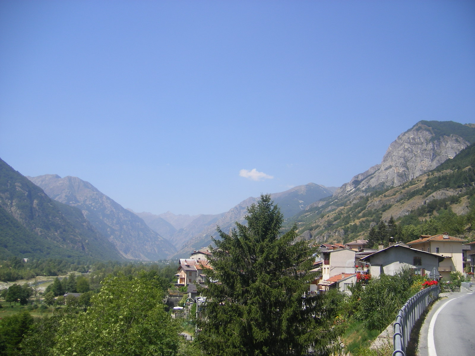 Aisone